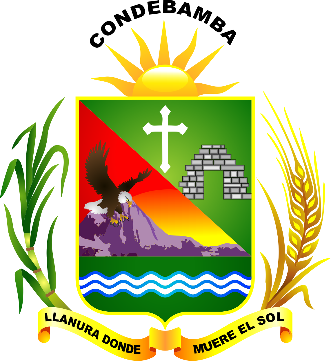 Condebamba District - Province of Cajabamba - Cajamarca Region